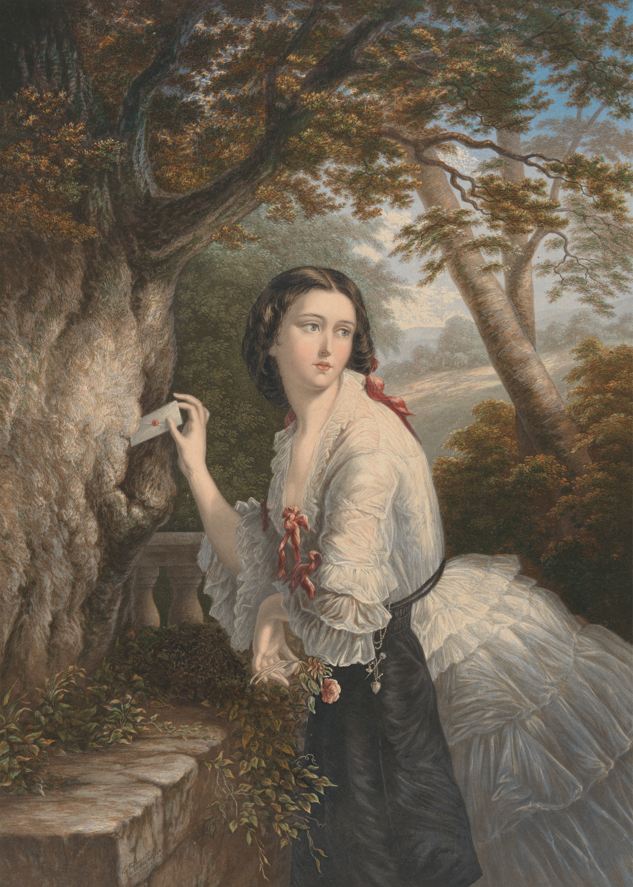 The Lover’s Letter Box, oil colour print (“Baxter print”) by George Baxter (1804–1867), after Jessie McLeod (active 1850s)